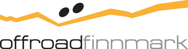 race logo